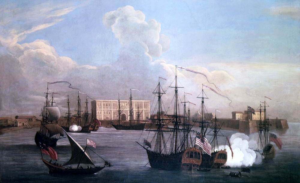 Painting of the East India Company's settlement in Bombay and ships in Bombay Harbour